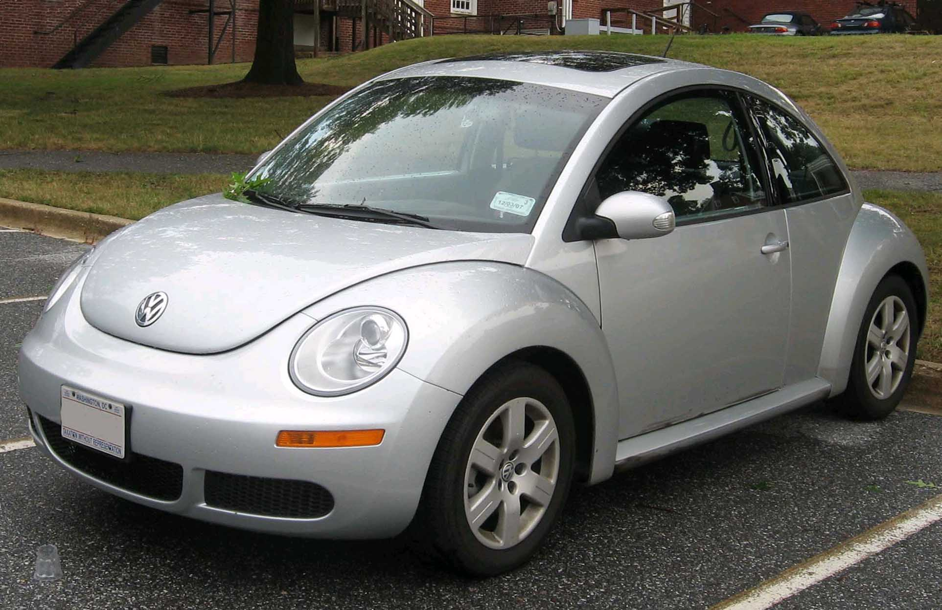 2006-2007 VW New Beetle photographed in College Park, Maryland, USA.